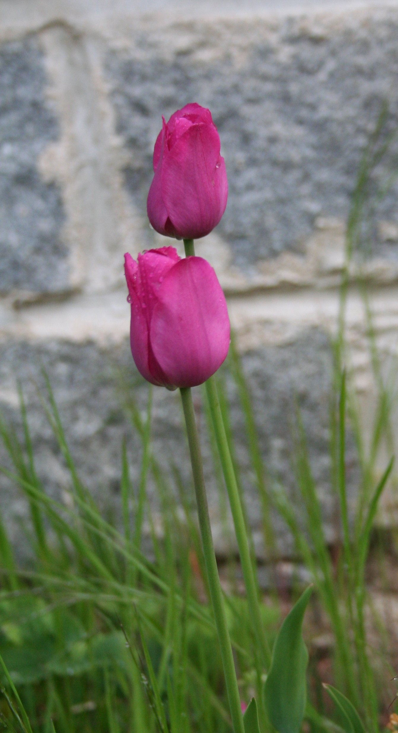 Tulip.